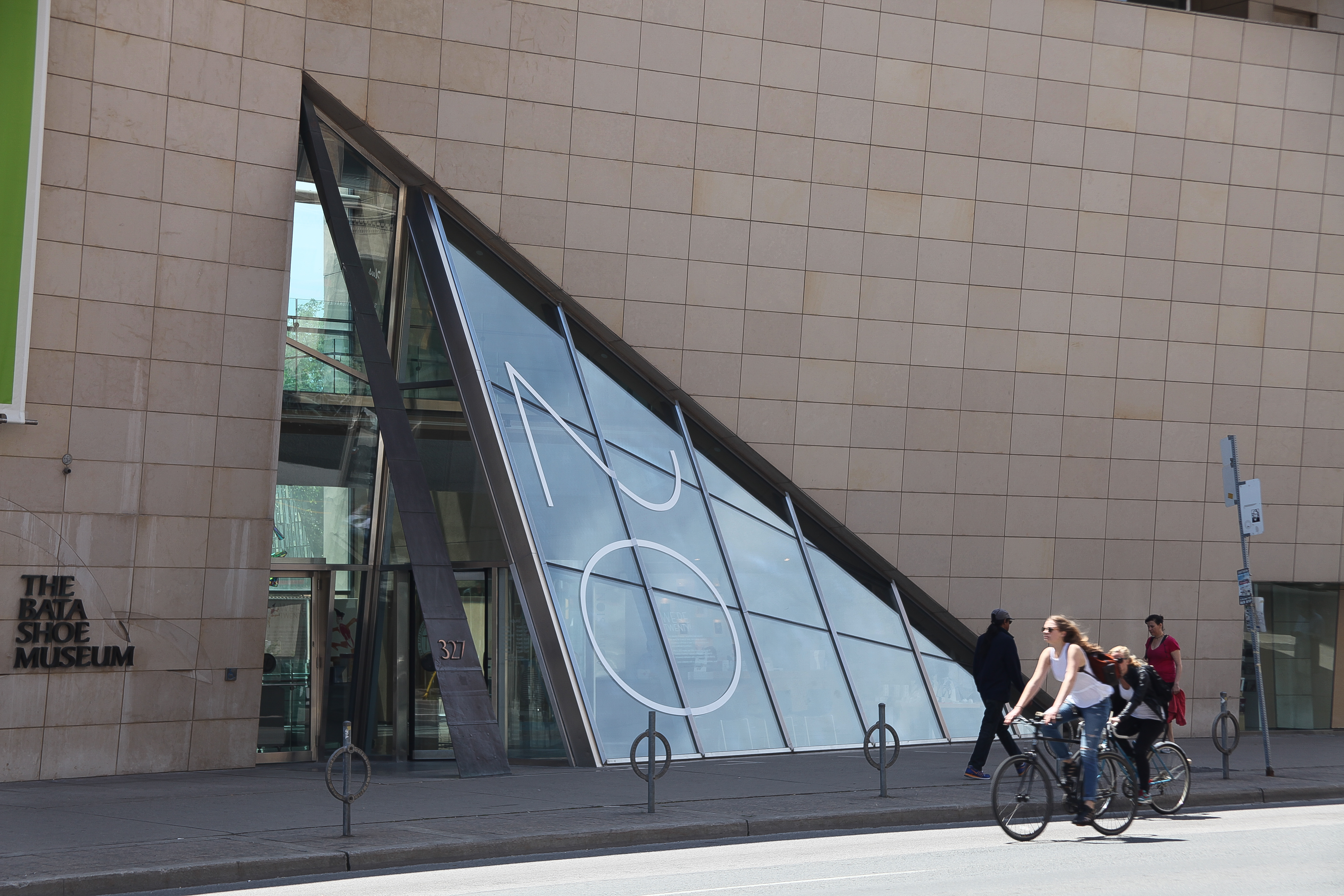 entrance to The Bata Shoe Museum, designed by Raymond Moriyama. On the next photo is the whole building.